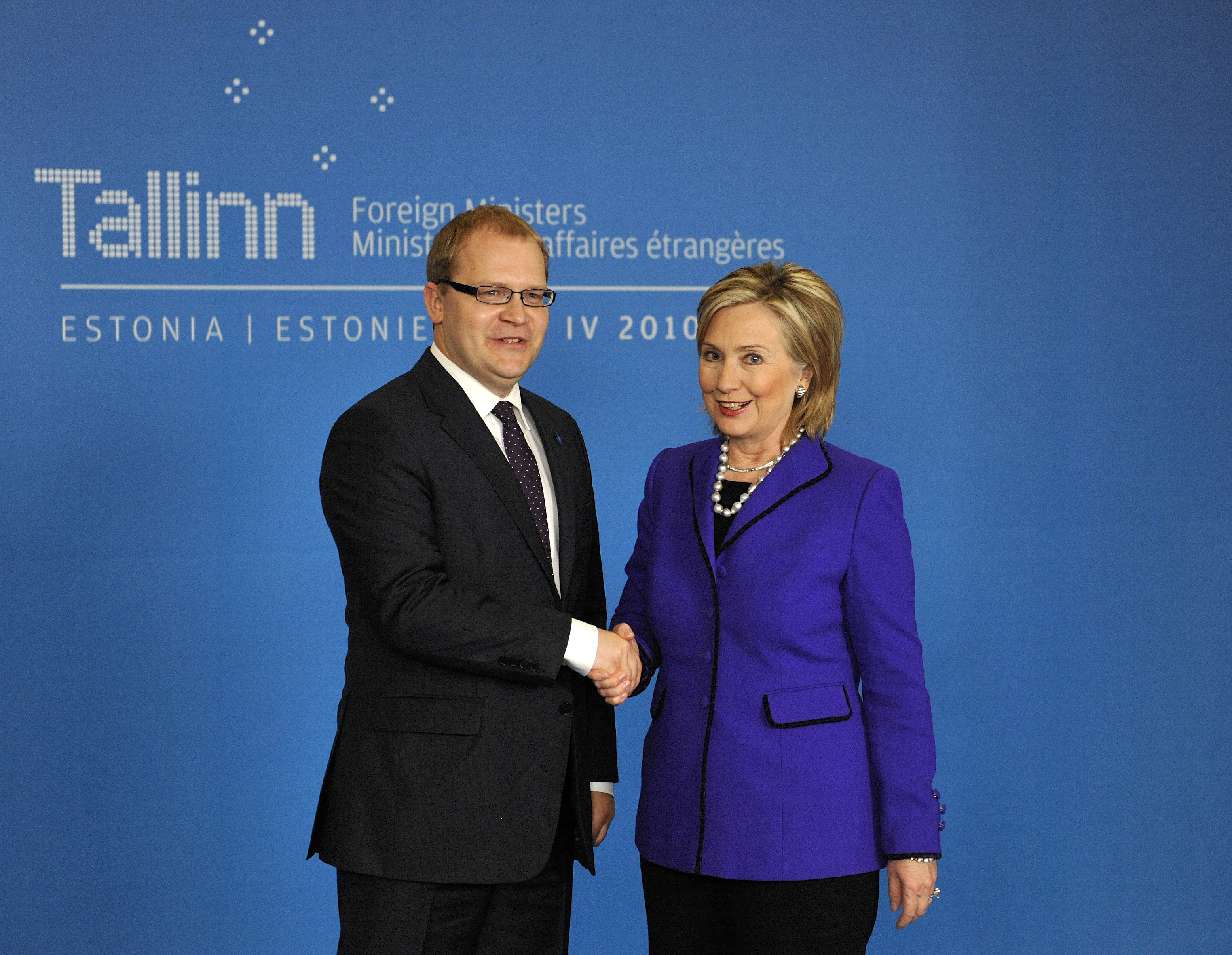 Informal Meeting of NATO Foreign Ministers in Tallinn